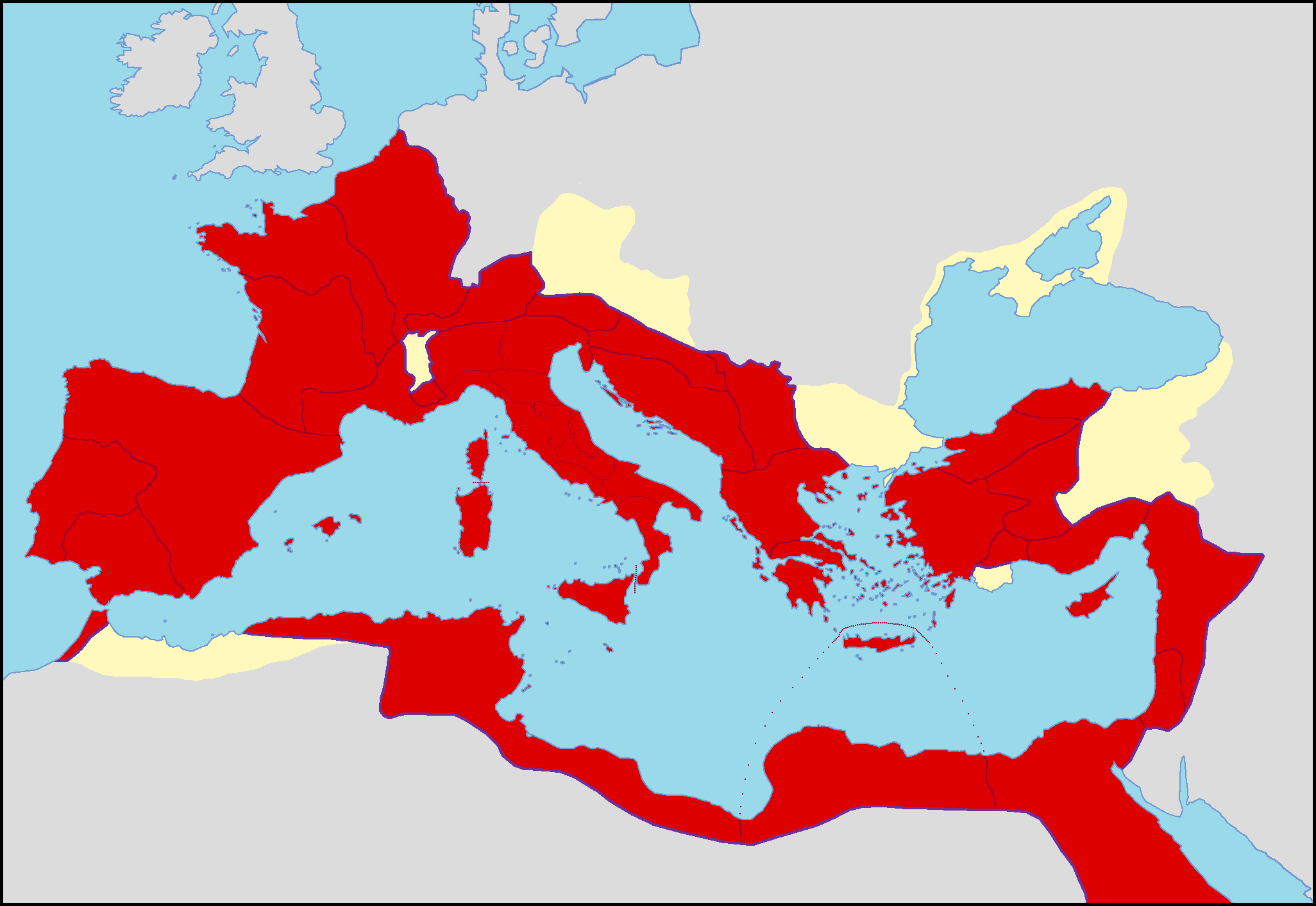 Map of the Roman Empire in 14 AD